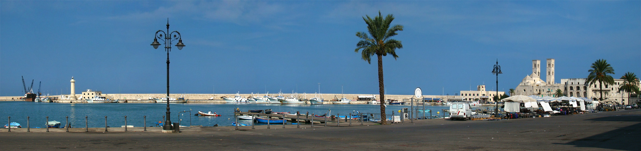 Molfetta, Apulia, Italy. The Duomo Vecchio can be seen on the right.